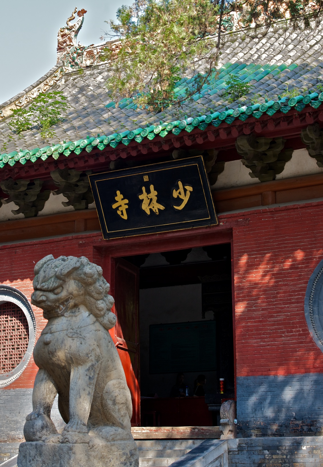 Shaolin Temple